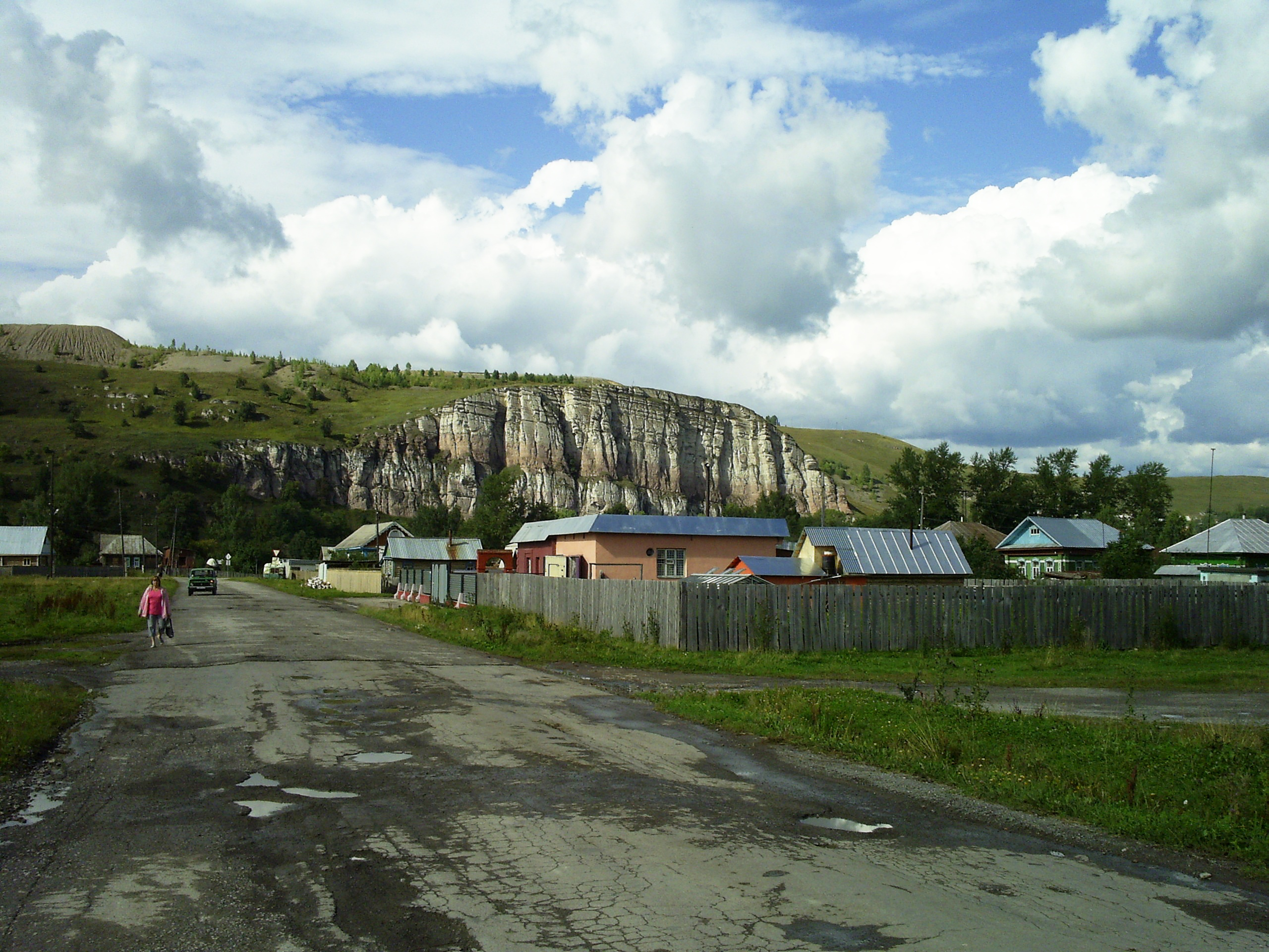 The small town of Minyar, Chelyabinsk Oblast, Russia. The mountain on the background is iconic of the town.